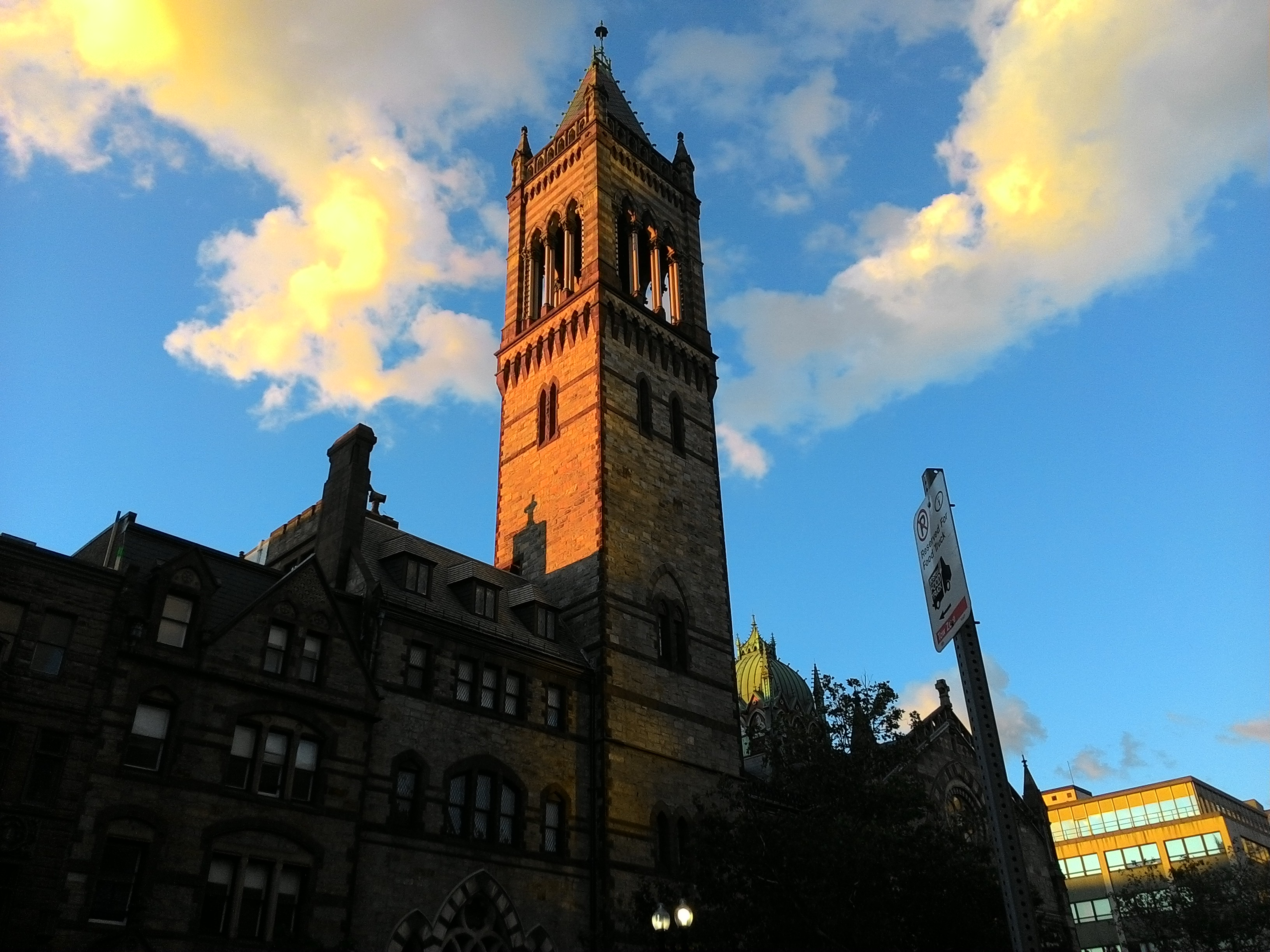 A photo Wikiklrsc took of the Old South Church in Boston, Massachusetts at twilight on Boylston Street near Copley Square from the vantage of the Boston Public Library main Copley branch.